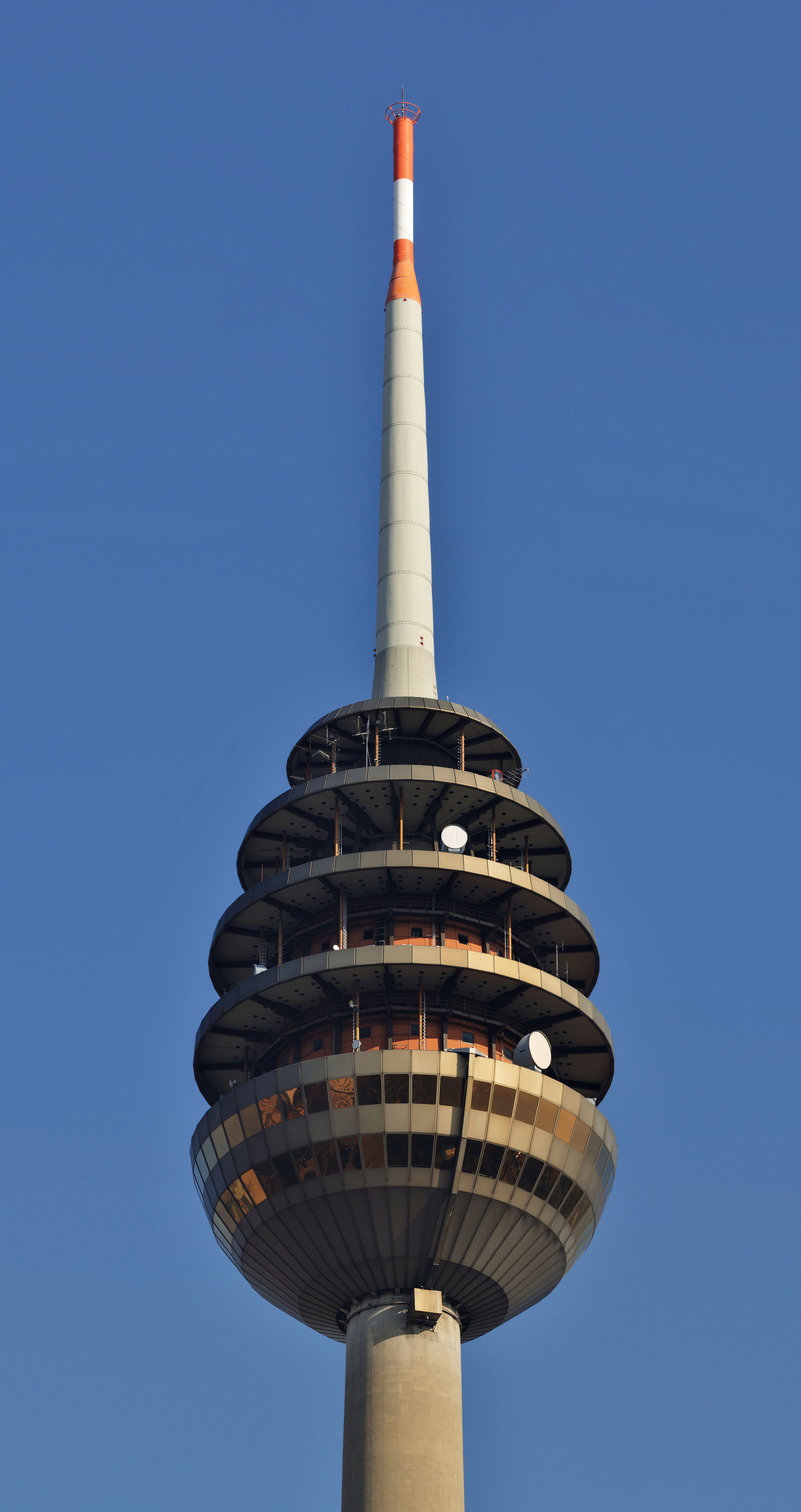 Mainpod of TV-Tower Nuremberg (Fernmeldeturm Nürnberg)